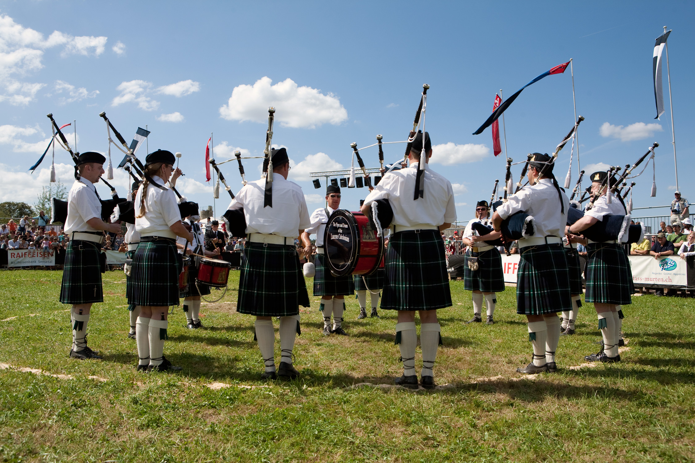 «wùy ù ay» Highland Games Schweizer Meisterschaften 2009 - Swiss Pipe Band Championships